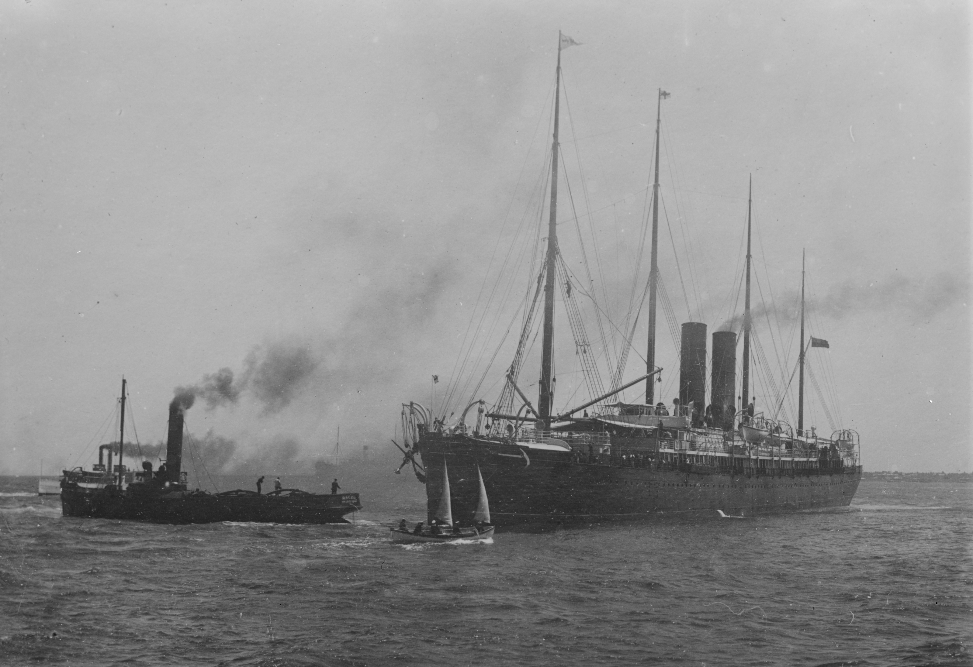 Original caption: “ORIZABA, Shows steam tug Racer towing steam ship rigged with sail.”